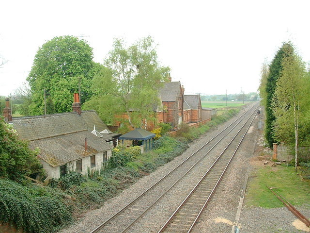 Carlton Nr Goole: Railway Station The railway station is now a private dwelling